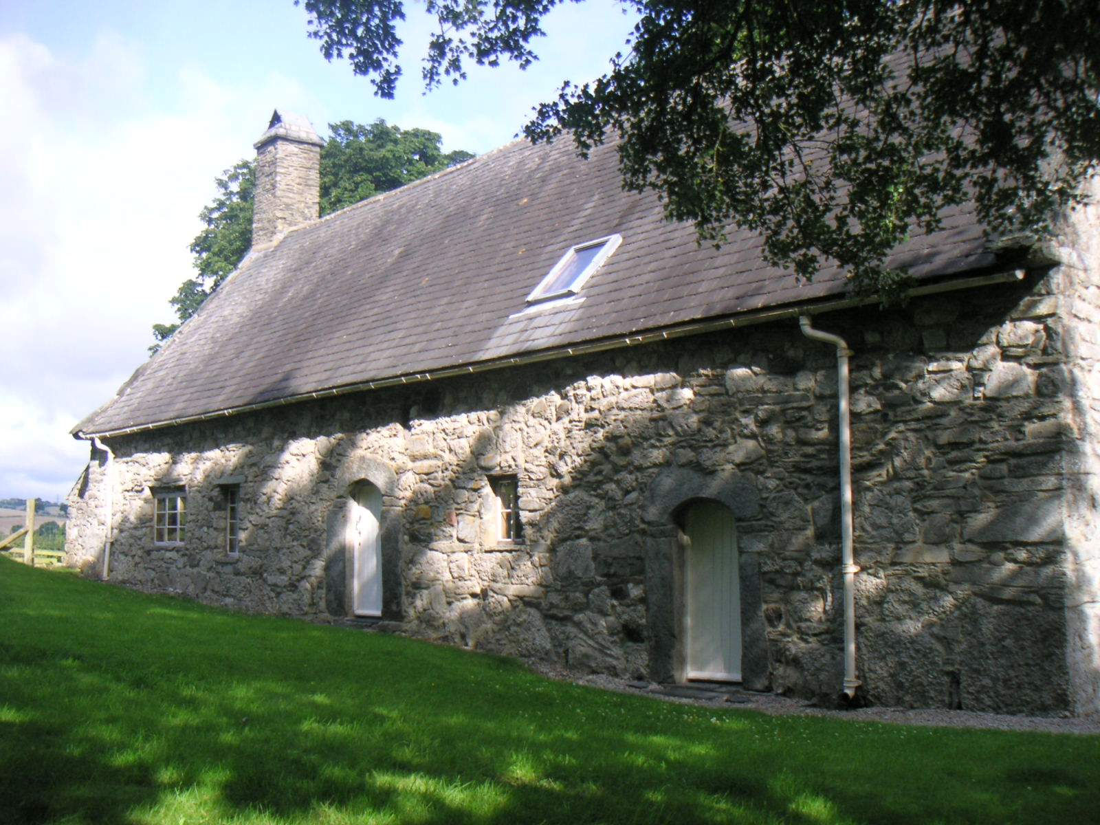 Exterior view of Plas Uchaf, a Landmark Trust property near Corwen, Denbighshire